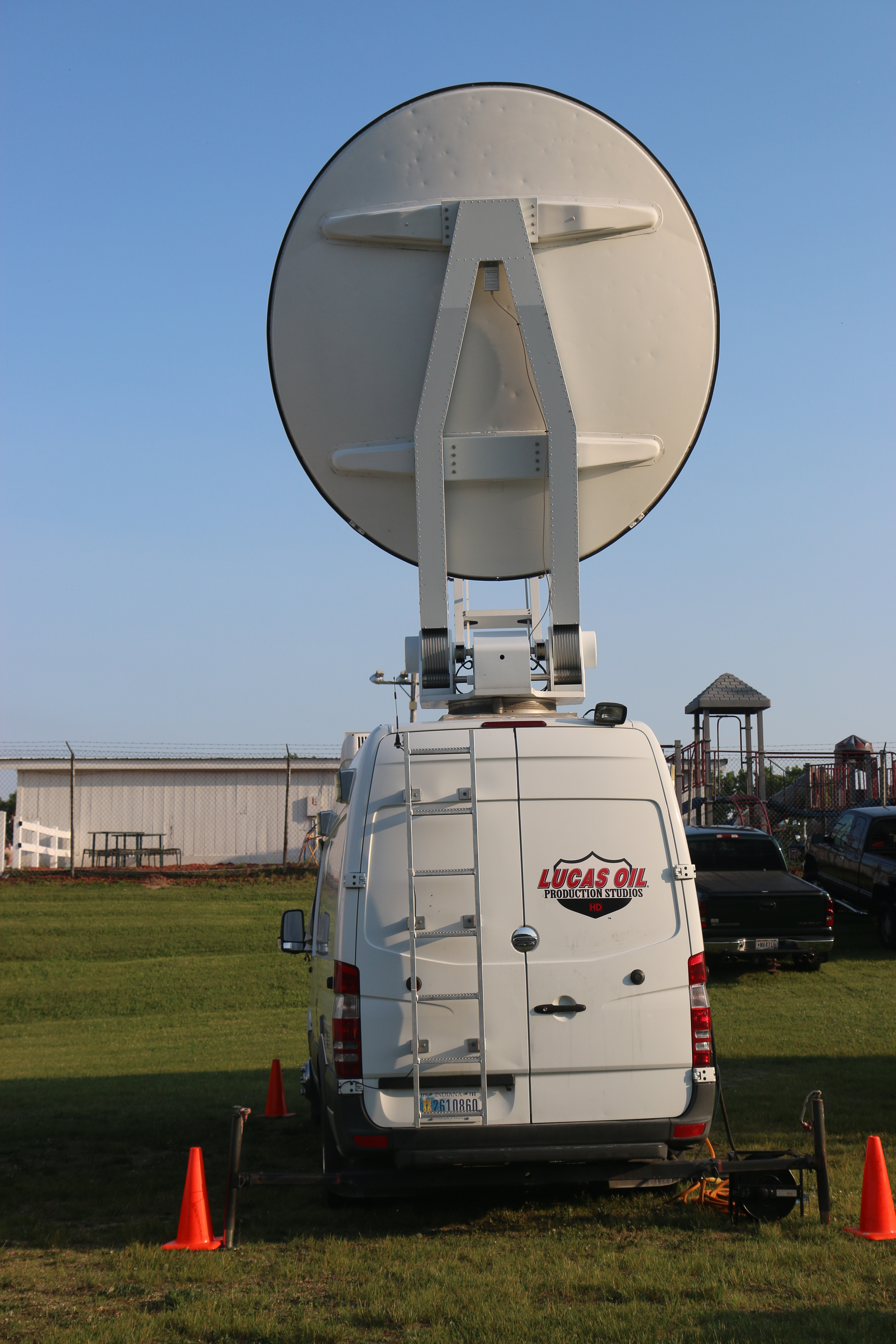 MAVTV satellite broadcast truck used to relay signal for an ARCA at Madison International Speedway.